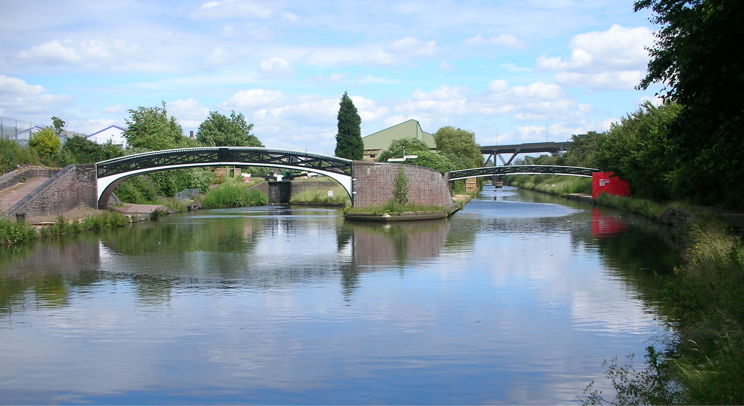 Bromford Junction on the BCN Main Line Canals near Oldbury, West Midlands, England. From behind the camera, the Island Line (New Main Line) meets the bottom lock of the Spon Lane Locks Branch (originally the Wednesbury Canal - part of the original Birmingham Canal to Wednesbury). Carrying on to the right is the Thomas Telford New Main Line towards Birmingham. Photographed by me 28 June 2007. Oosoom 23:16, 28 June 2007 (UTC)